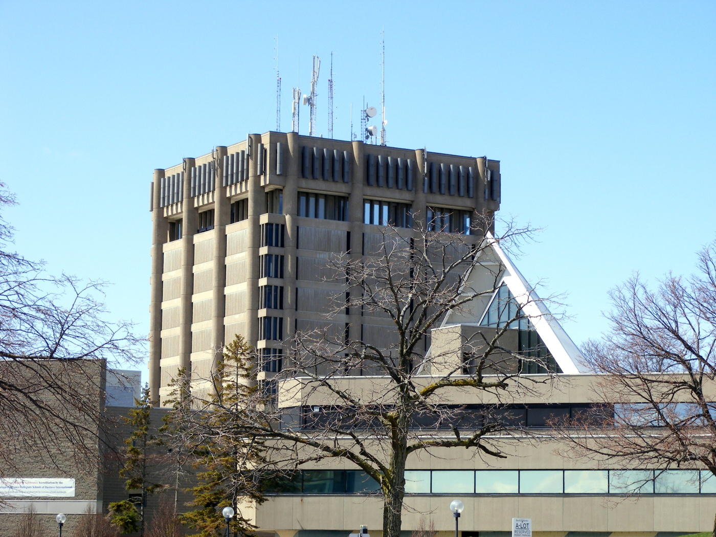 Arthur Schmon Tower at Brock University. Built in 1968, it houses the university library. Taken on April 13, 2008 Source: Photo by me, User:Balcer.